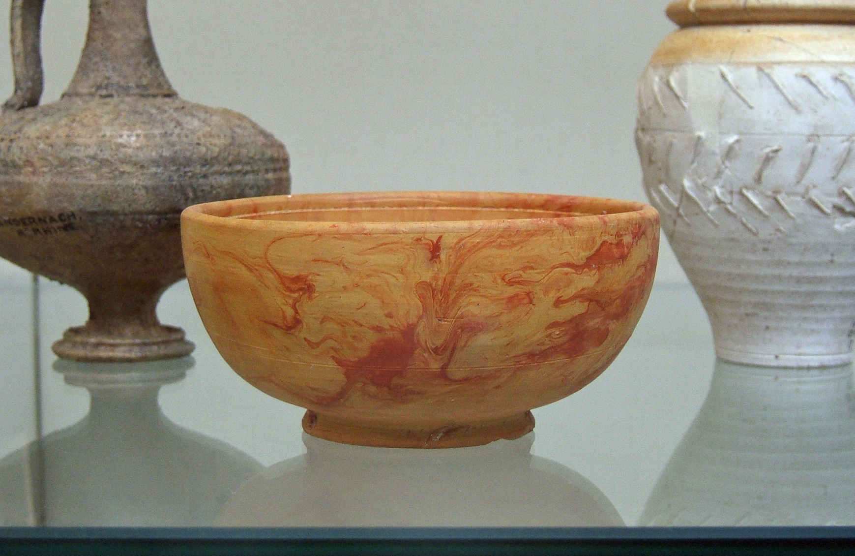 South Gaulish samian ware cup, form Hofheim 8, with marbled slip. Mid 1st century AD. Diam. 10.2 cm. British Museum, London. Interior is stamped "CAS", for "Castus fecit" ("Castus made [this]"). GR 1889.7-15.1